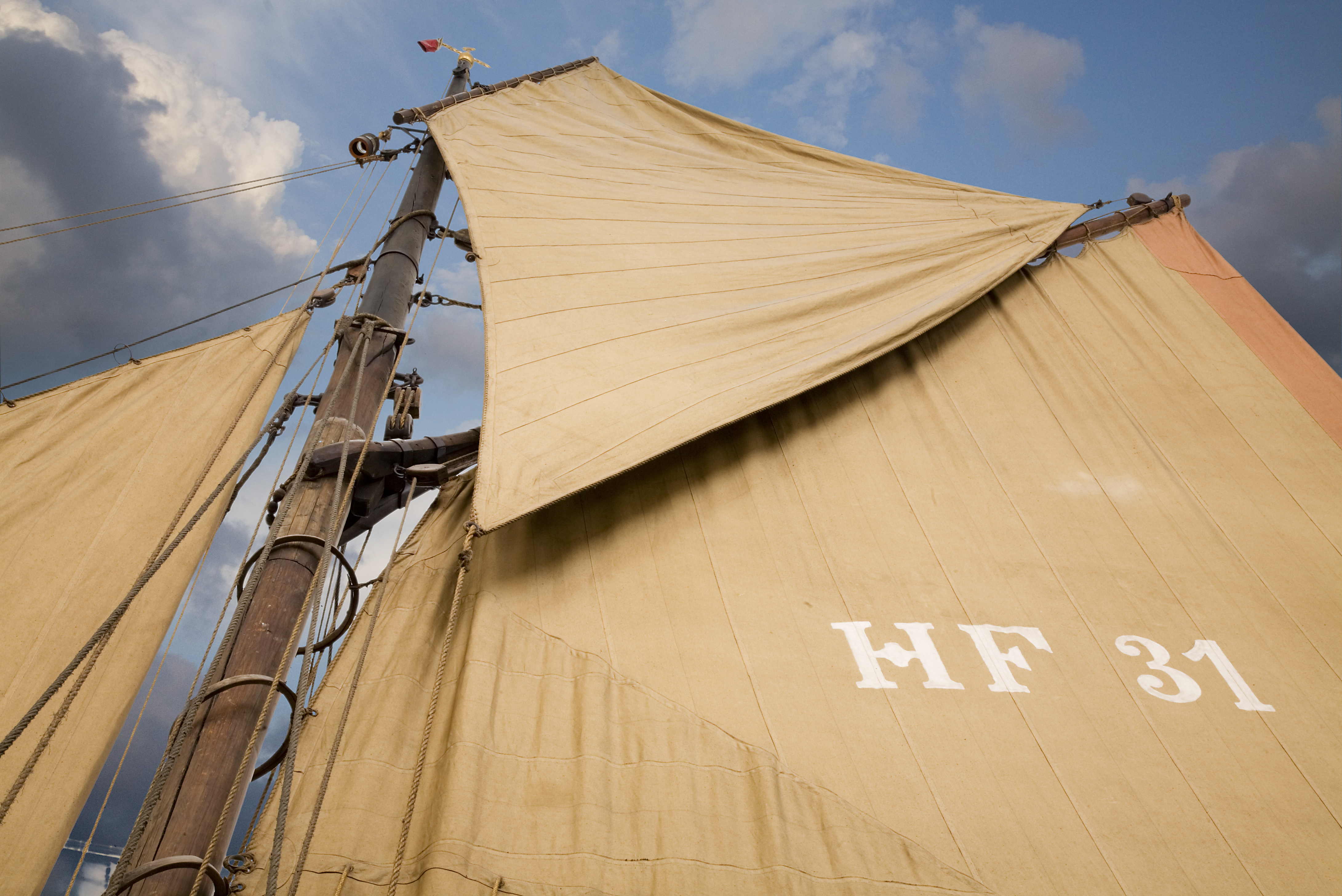 Main sails of a 1885 Schooner sailboat